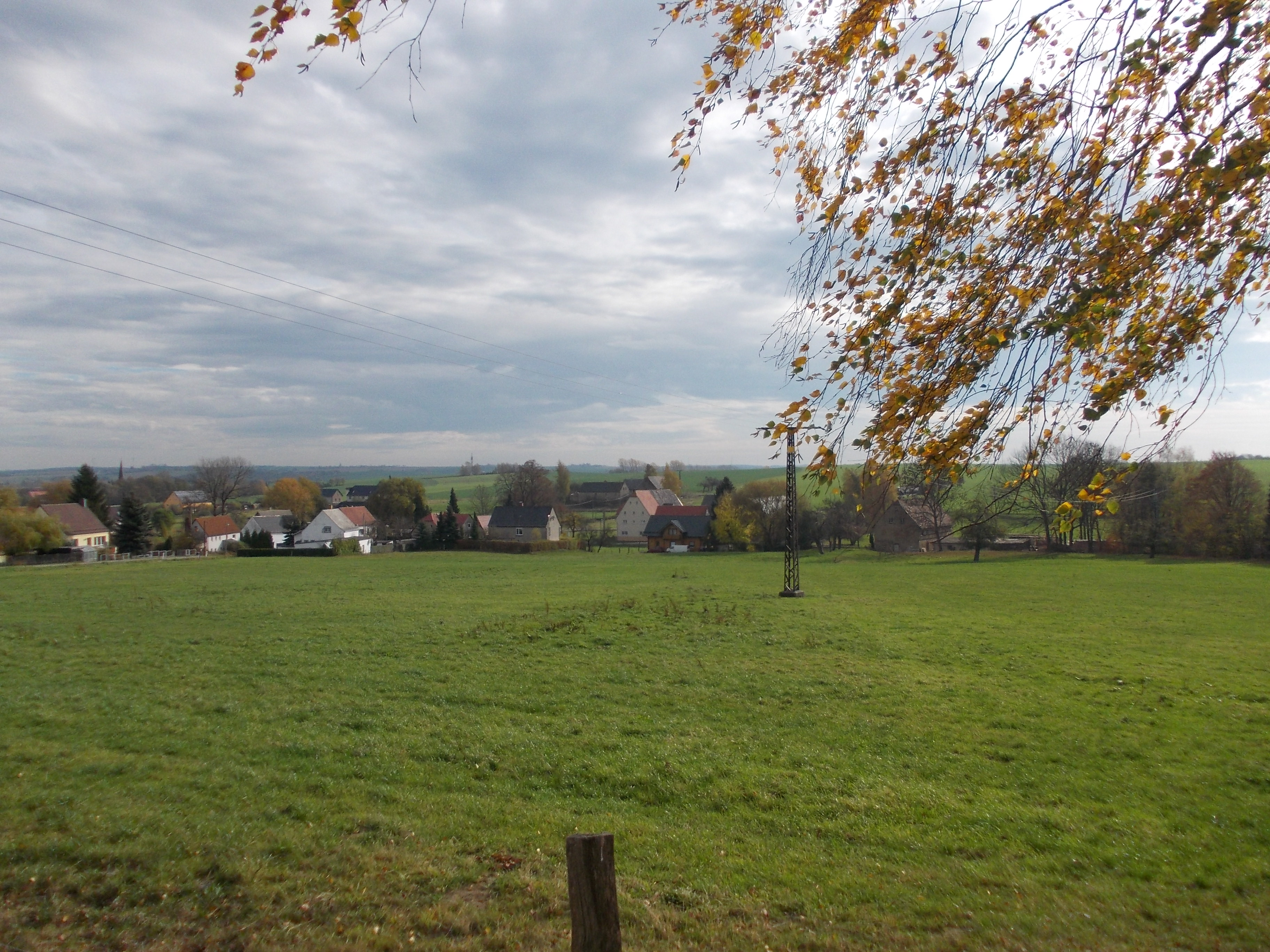 View of a part of Leutenhain (Königsfeld, Mittelsachsen district, Saxony)